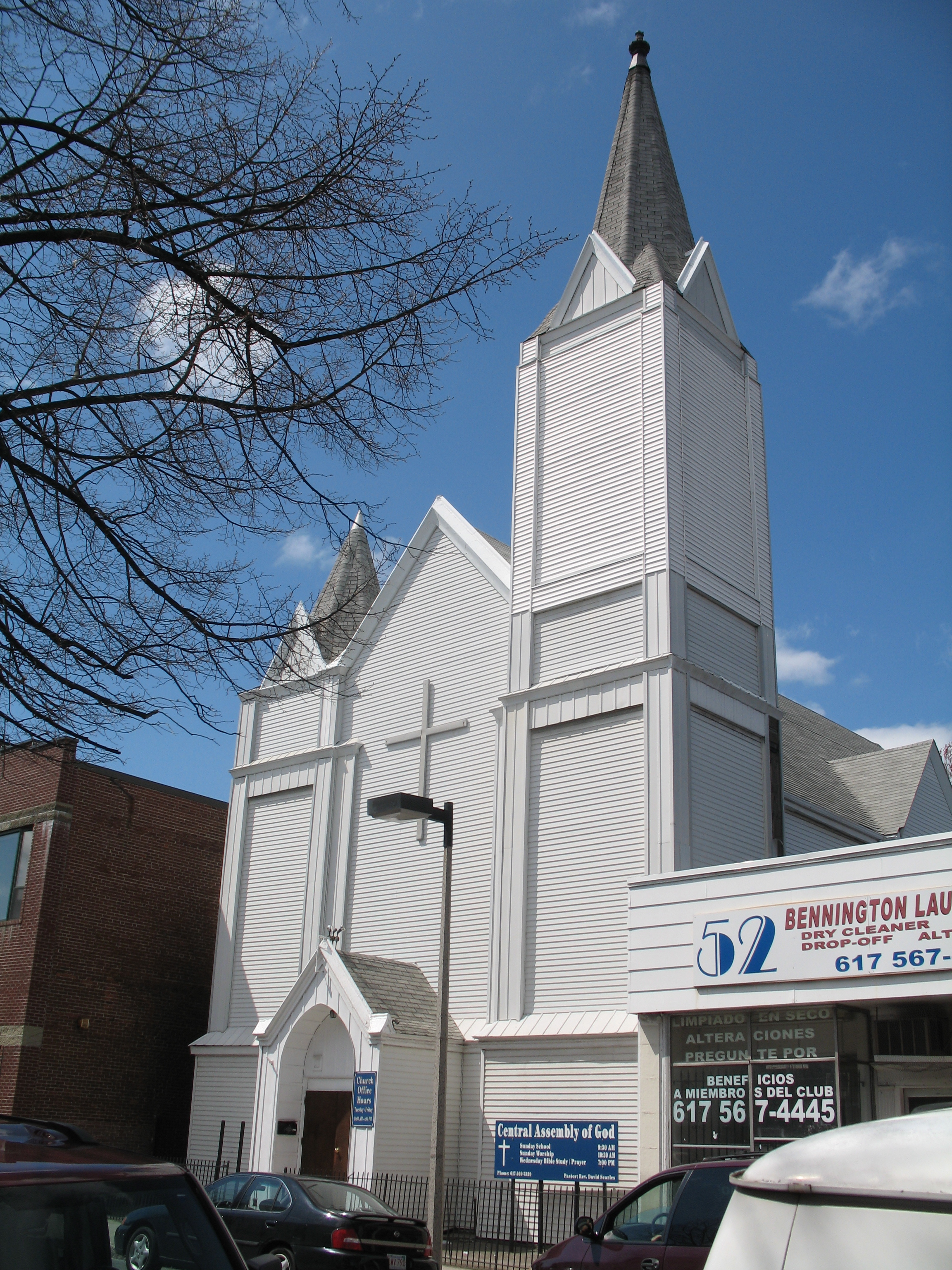 Central Assembly of God --- 50 Bennington Street, East Boston